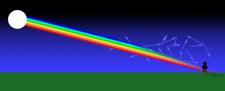 Schematical representation of the Rayleigh scattering effect.